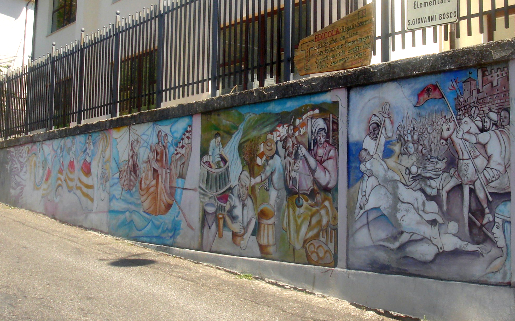 Murales (1. part) which tells the history of Sancostantinesi; Painter= Enzo Schillizzi (1955-2009)